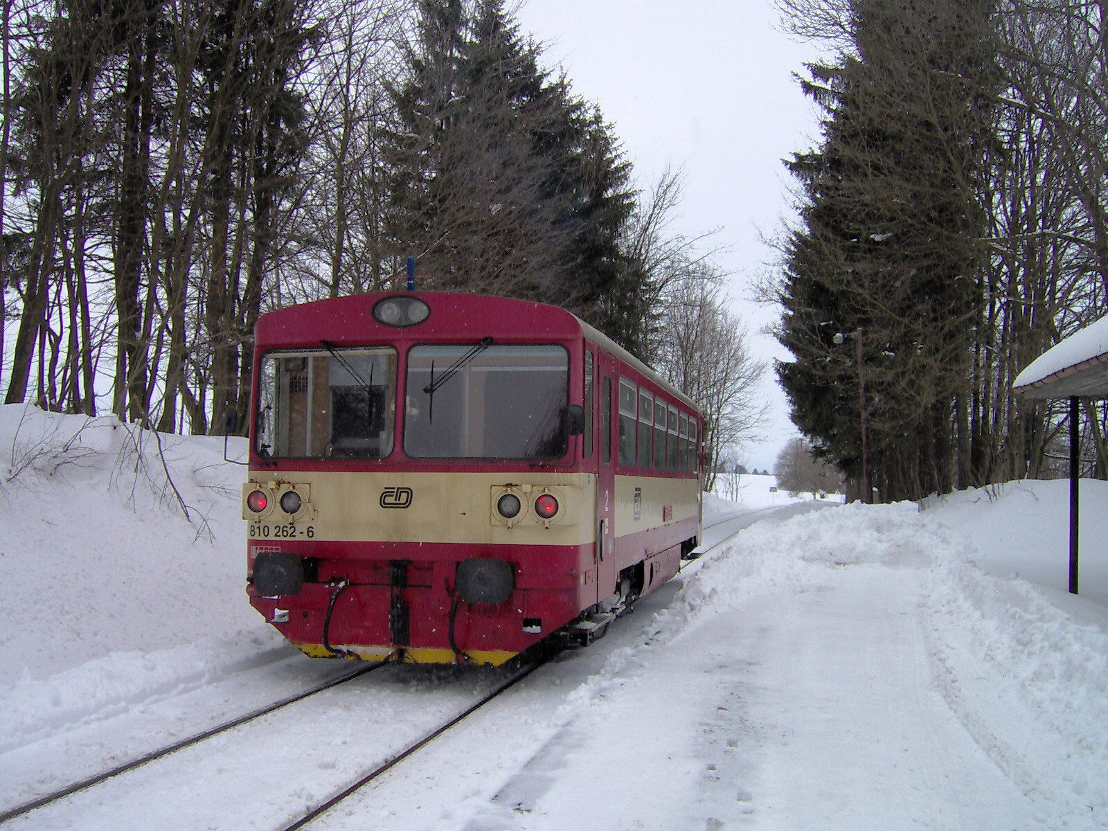 Diesel multiple unit 810.262 in Prostřední Lipka station, Czech Republic